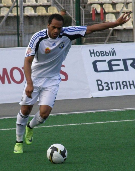 Zelão in action for FC Saturn Ramenskoye